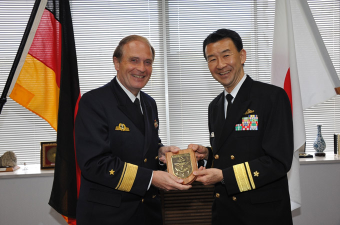 Flottillenadmiral Jürgen Mannhardt, Director of Plans & Policy Directorate, German Navy Command, visited the Japan Self Defense Fleet Headquarters in Yokosuka, Kanagawa, and met Rear Admiral Umio Otsuka, Chief of Staff of the Fleet HQ there.